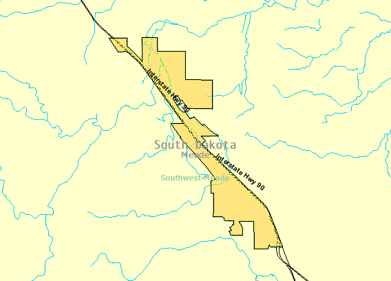 U.S. Census boundary map of Summerset, South Dakota via American Factfinder.